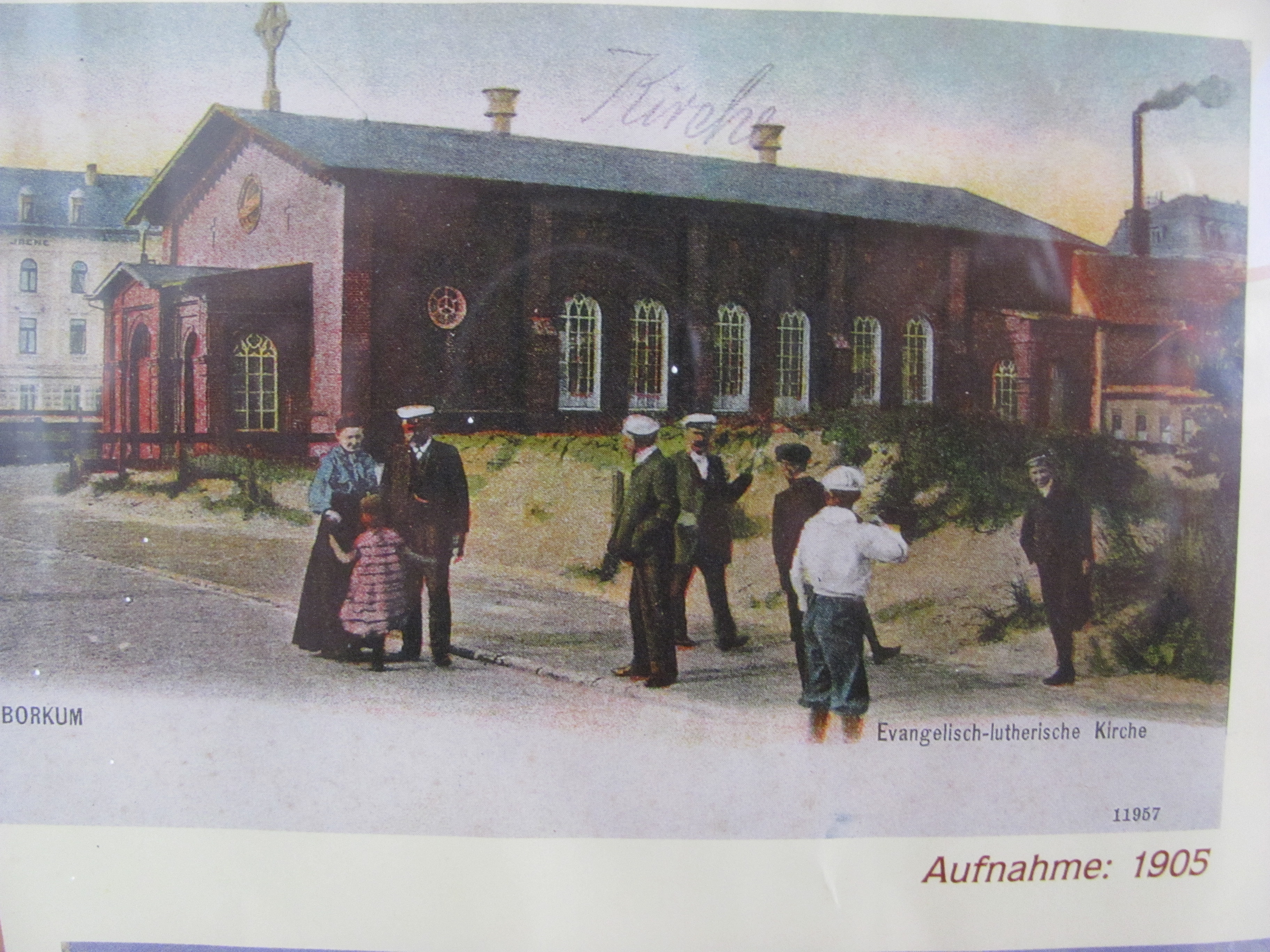 Historical shot (1905) of Lutheran Church, Borkum, Germany (postcard)